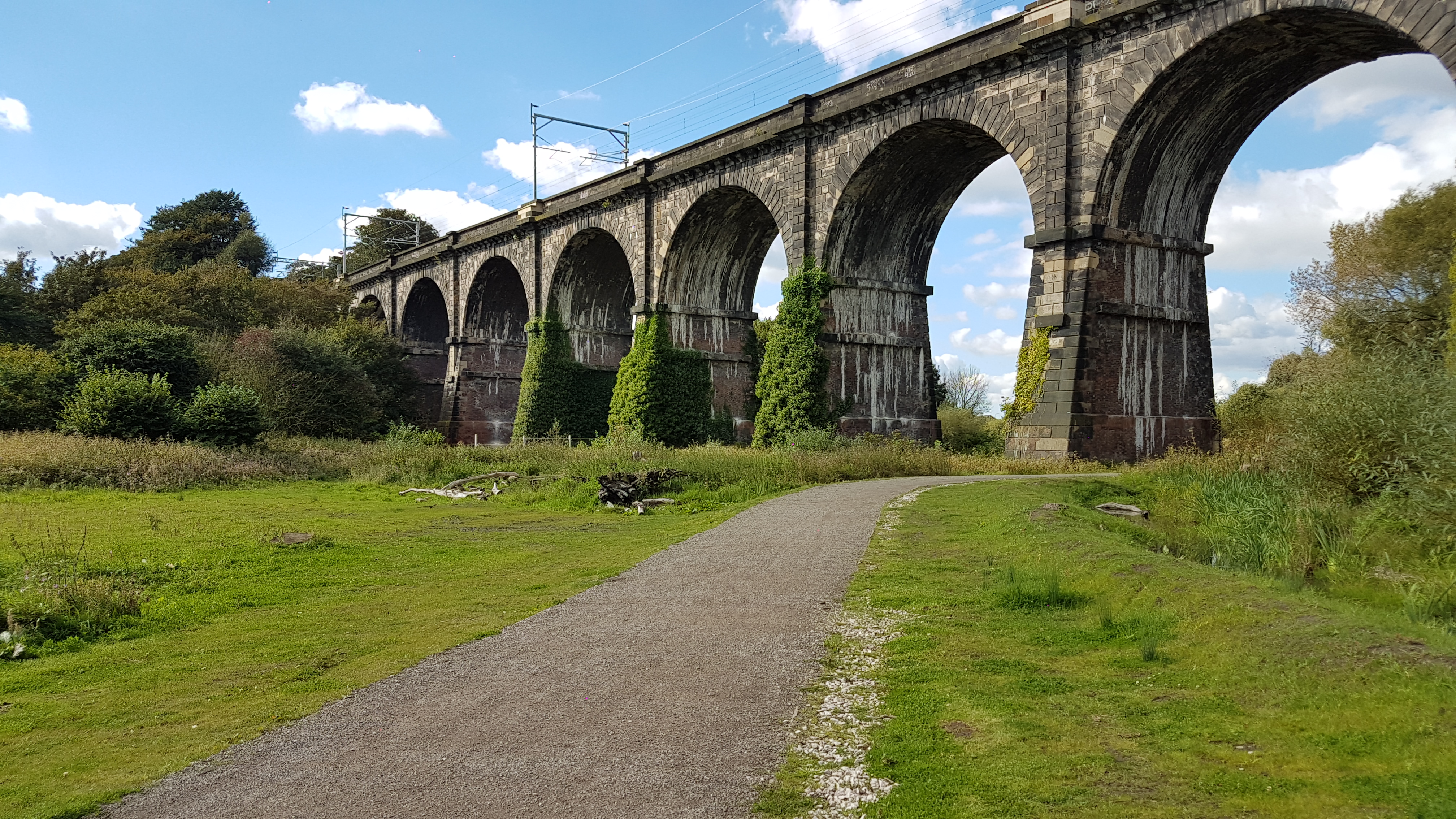 Picture of the Sankey Viaduct (built between 1828 - 1830) taken on October 2016.